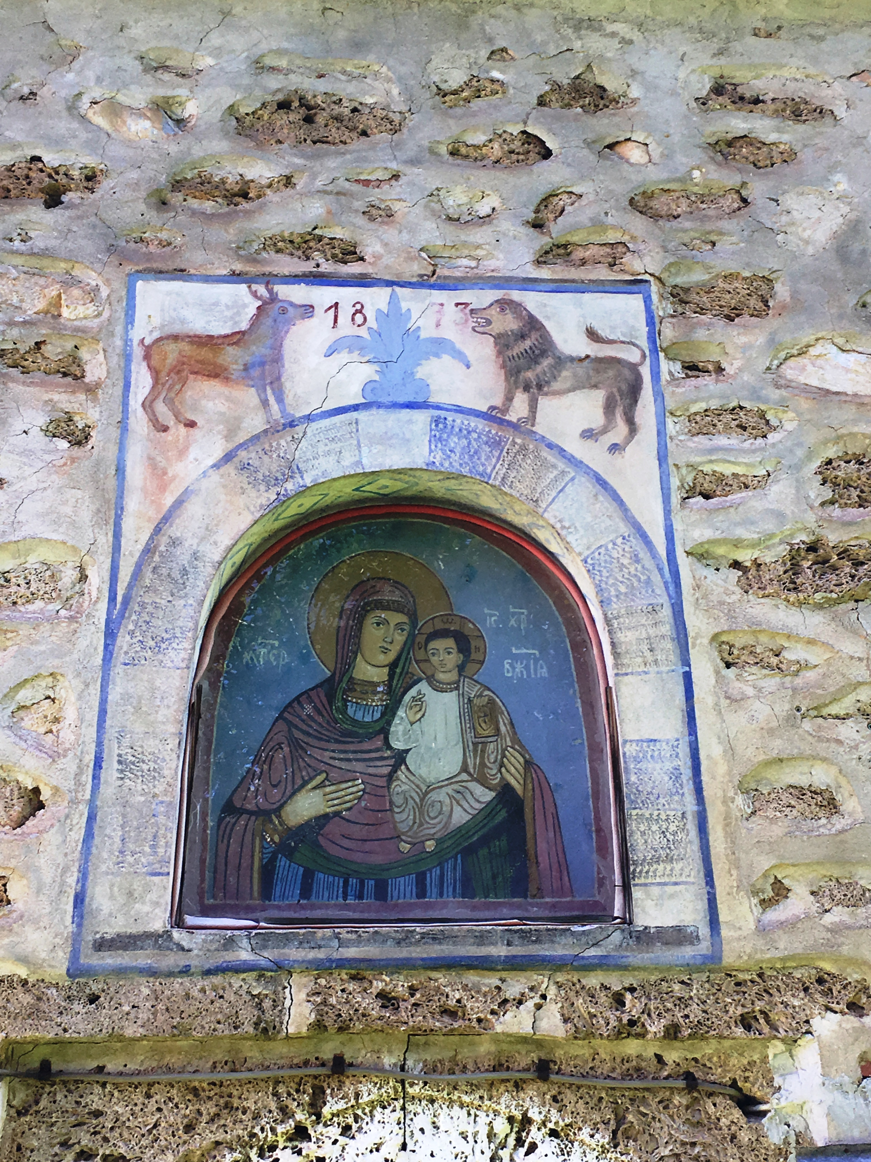 Fresco depicting Hodegetria above one of the opening doors of the St. Pantaleon's Church in the village of Belica